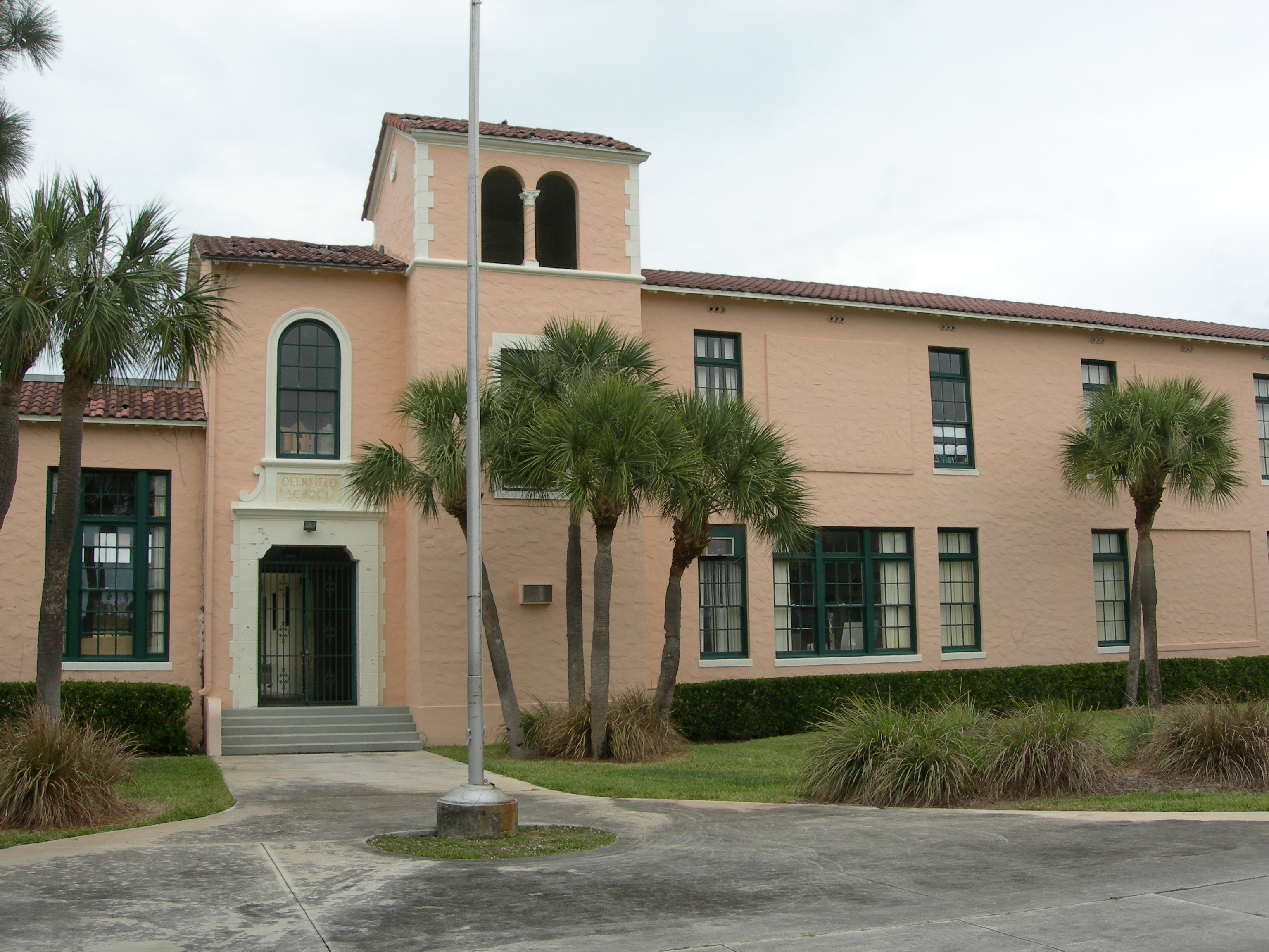 Deerfield Beach: Deerfield Beach Elementary School -- historic structure